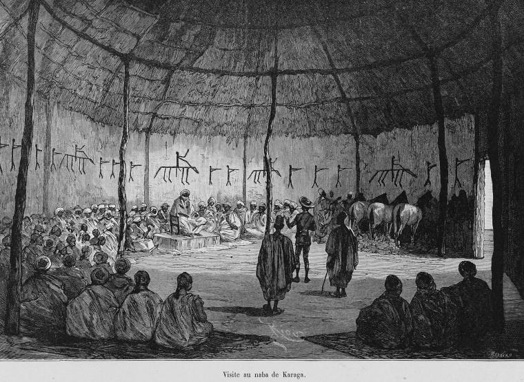 Karaga chiefs meeting governor Louis-Gustave Binger of French West Africa inside large traditional thatched structure, in present day Ghana. Art by Édouard Riou in 1892.